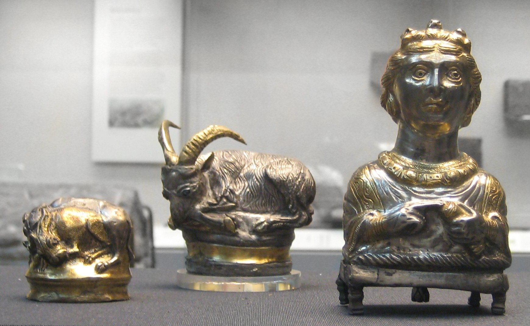 Silver pepper pots from the Hoxne Hoard. Including the Hoxne "Empress" pepper pot